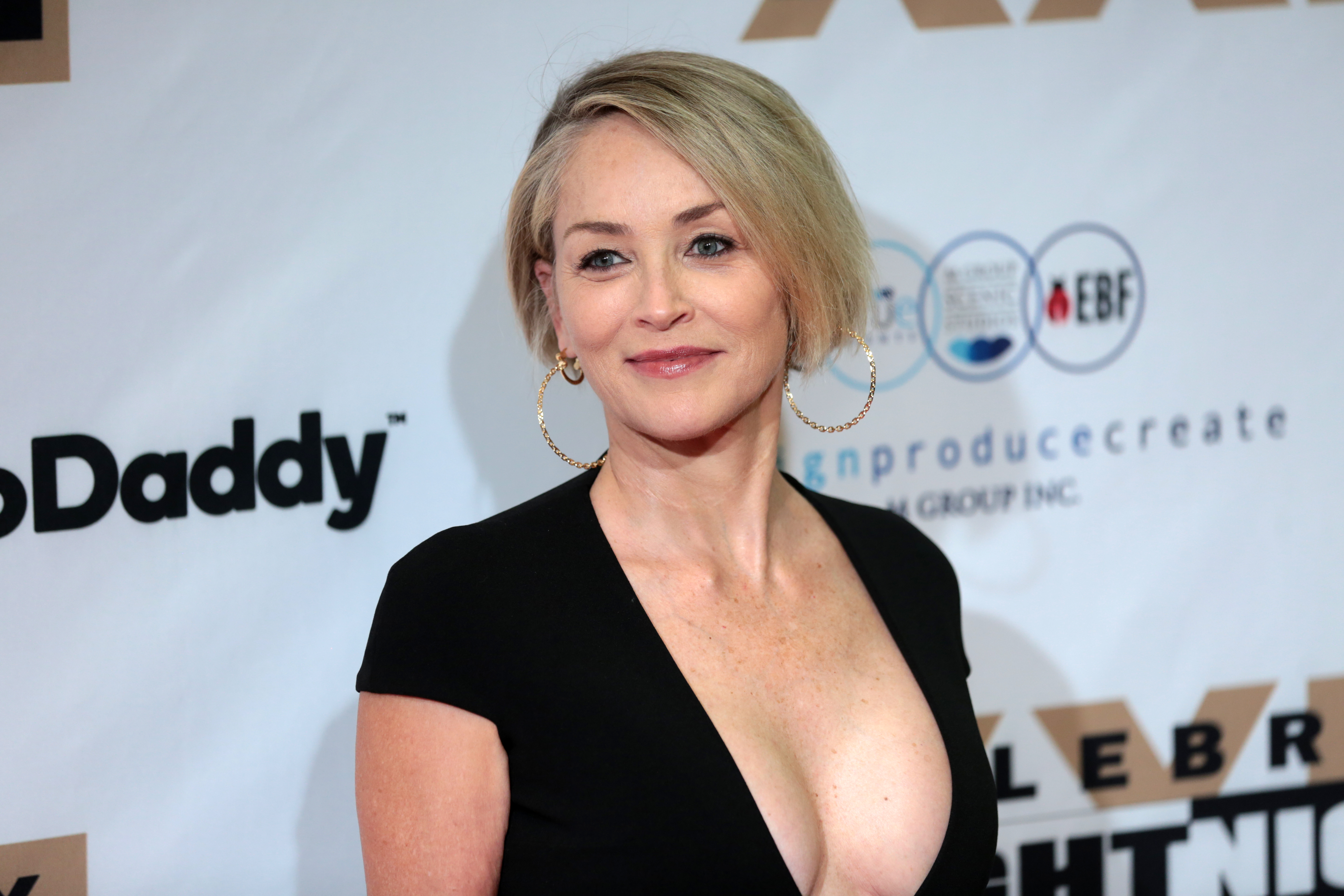 Sharon Stone on the red carpet at Celebrity Fight Night XXIII at the JW Marriott Desert Ridge Resort & Spa in Phoenix, Arizona.